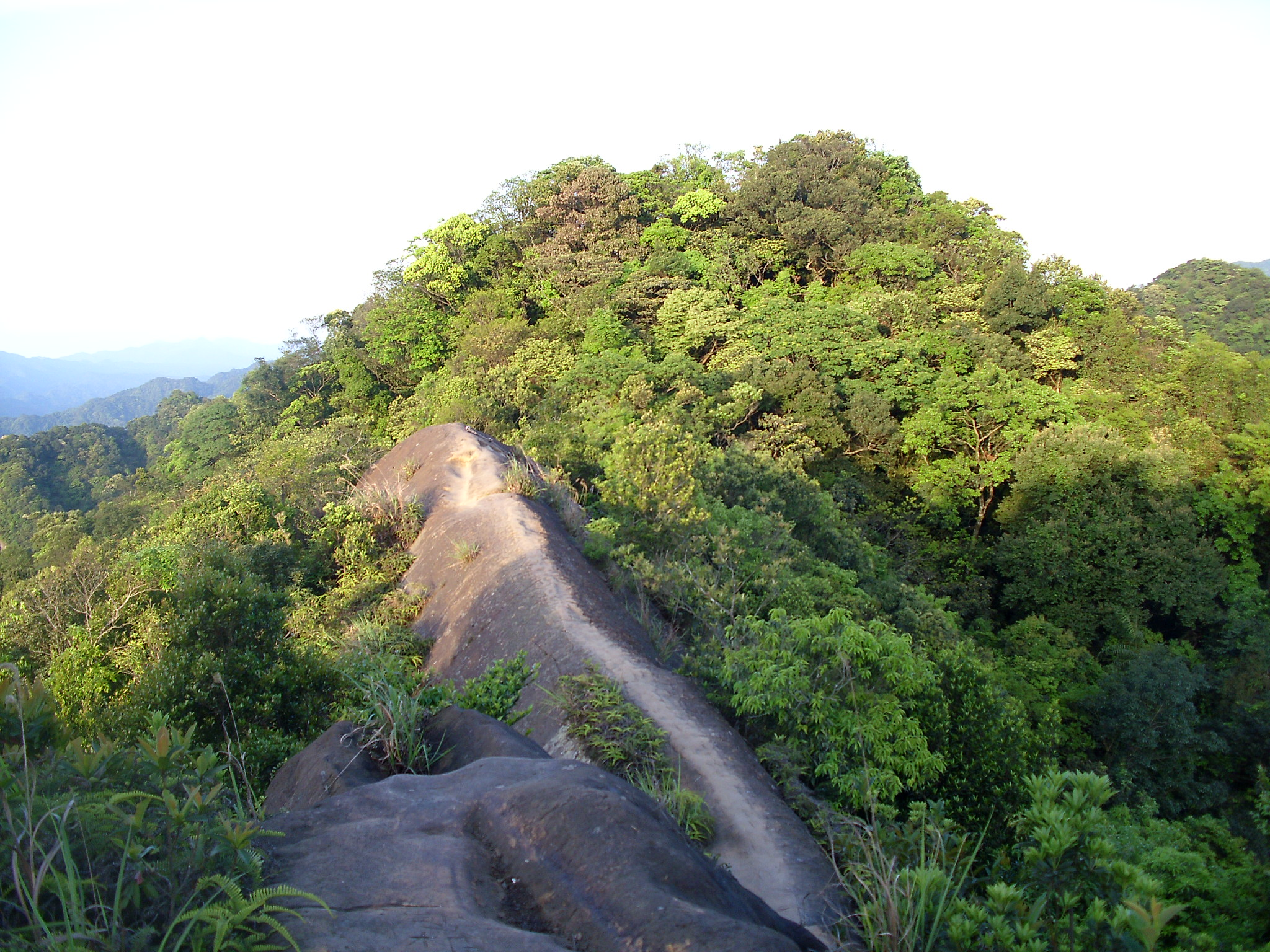 Huangdidian Ridge, Shiding Distric, New Taipei